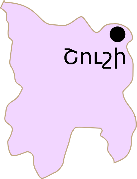 Shushi Province